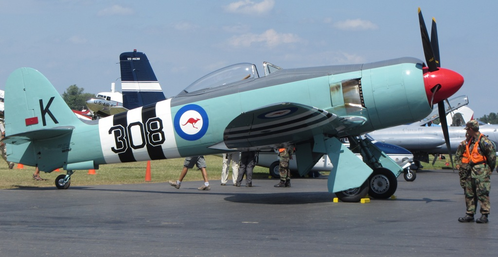 Hawker Sea Fury, serial number 308, ex-Iraqi Air Force, ex-US civil reg. N54SF, later Australian civil reg. VH-HFG. Shown in the paint scheme of Sea Furies operated by the Royal Australian Navy.